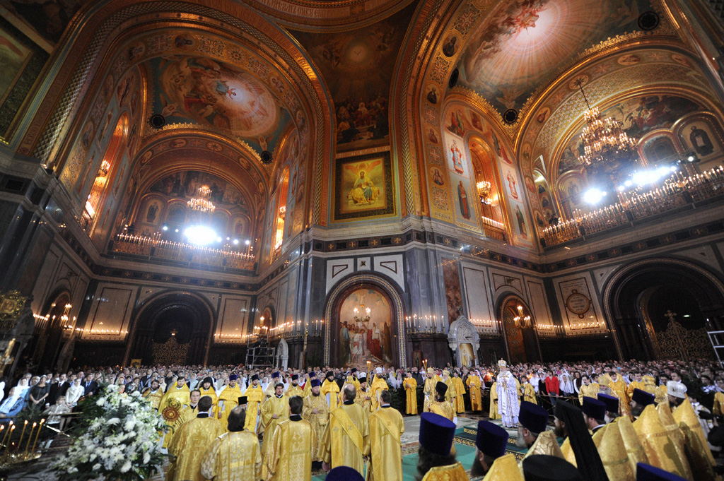 “Christmas service at the Cathedral of Christ the Saviour”. Parishioners and priests at vespers in honor of the Nativity in the Cathedral of Christ the Saviour.